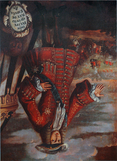 Portrait of Philip V of Spain exhibited upside down in the Museum of Almodí, Xativa, for having burned the city in 1707. PLEASE DON'T ROTATE IT